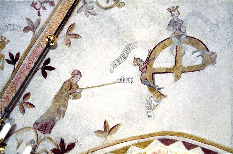 Bregninge Kirke (church) in Kalundborg Kommune